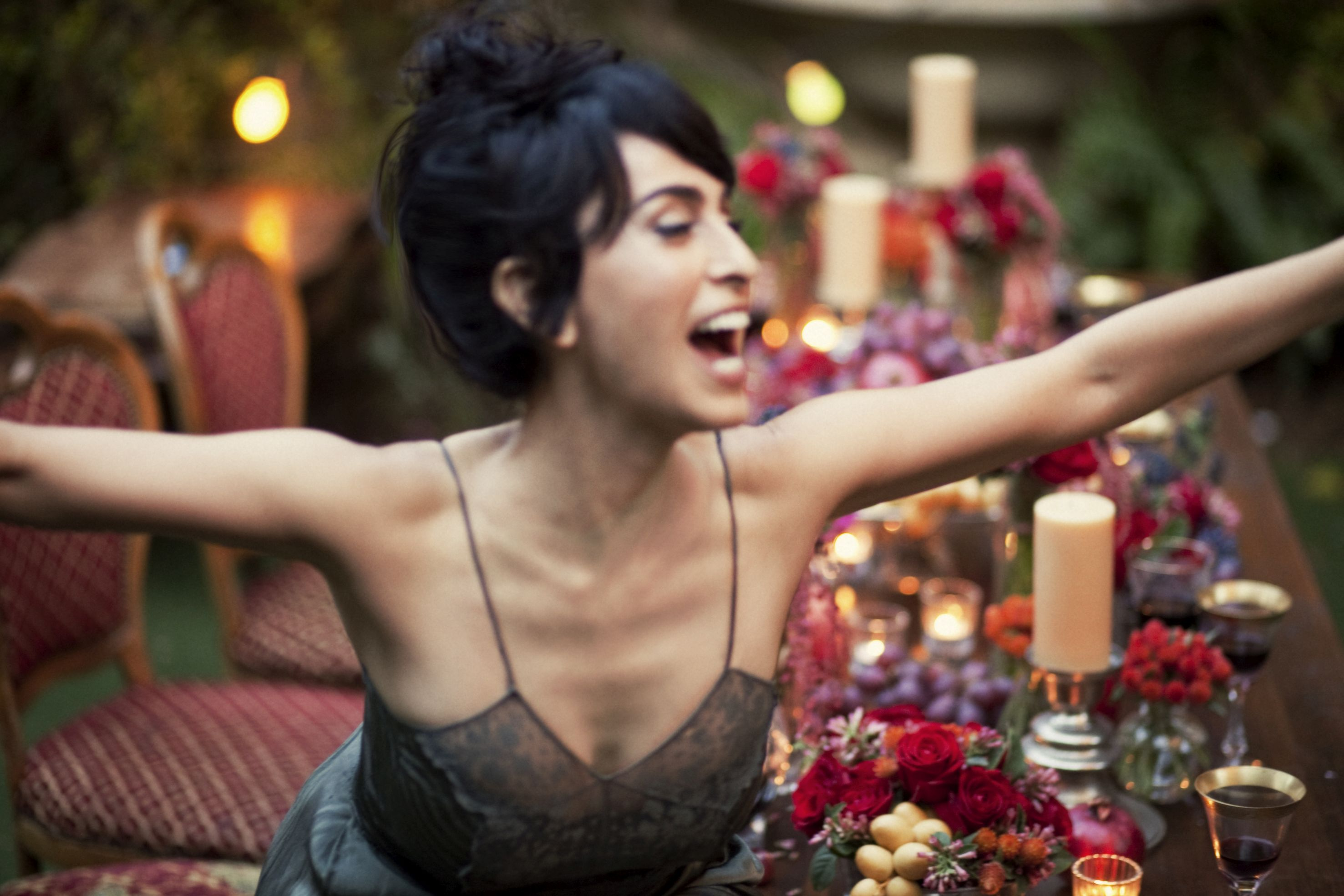 Rita - Israeli singer